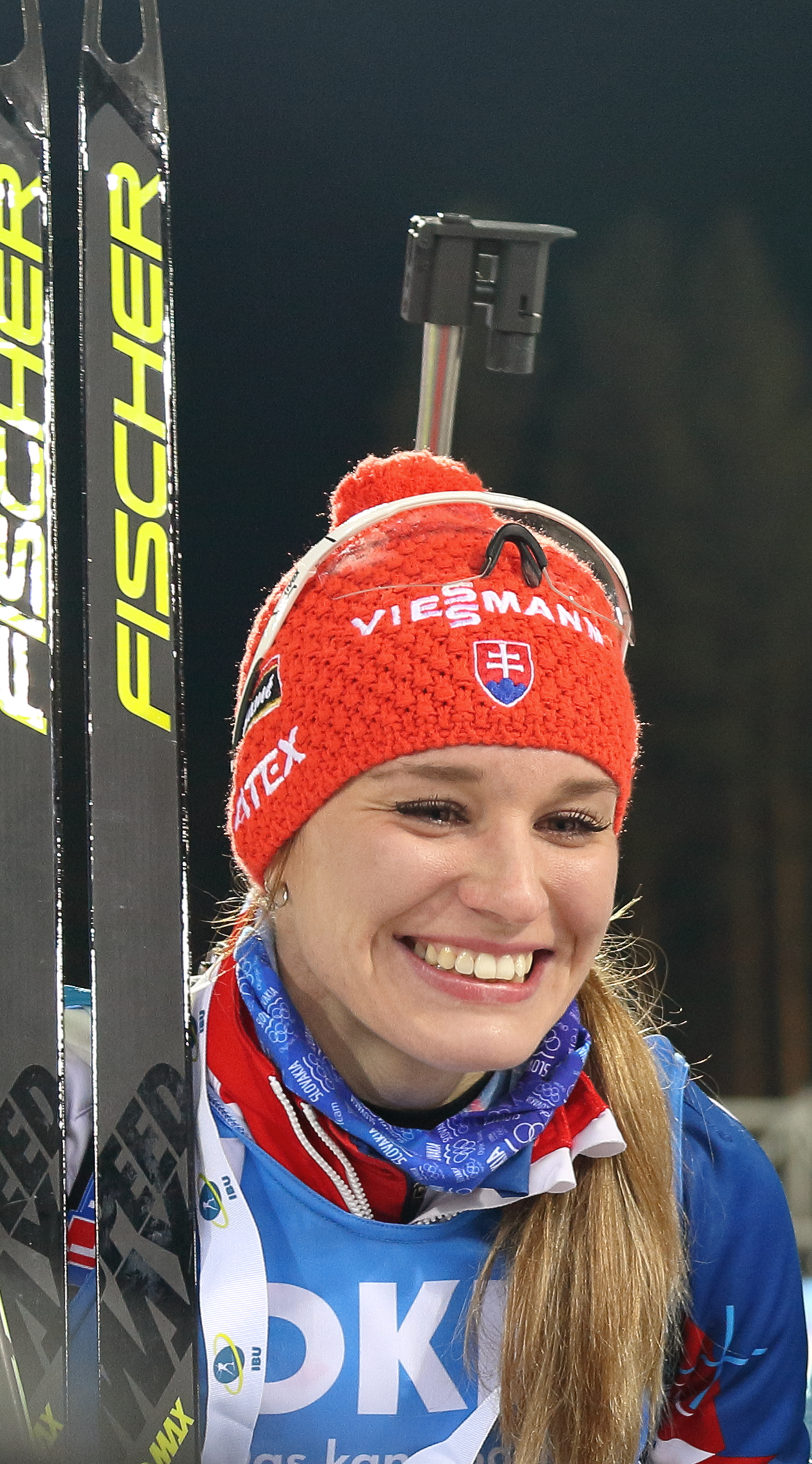 BMW IBU World Cup Biathlon 9 #TMN18 Tyumen 2018-03-25 Women 12.5km Mass Start